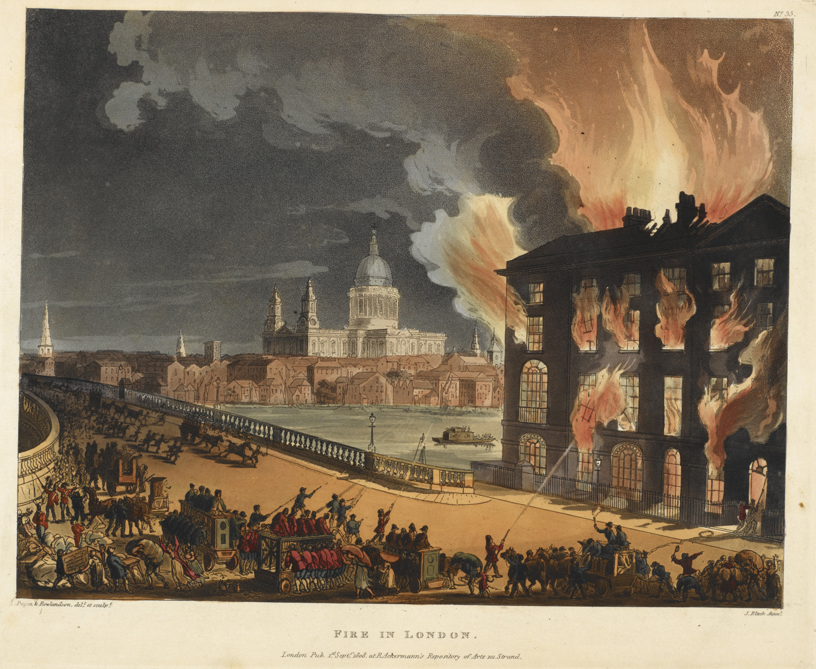 'Fire at Albion Mill'. Fire at Albion Mill, Blackfriars Bridge. The Albion flour-mill was one of the earliest all-iron plants, completed in 1769 to the design of Robert Mylne.The fire occured on 3 March 1791.